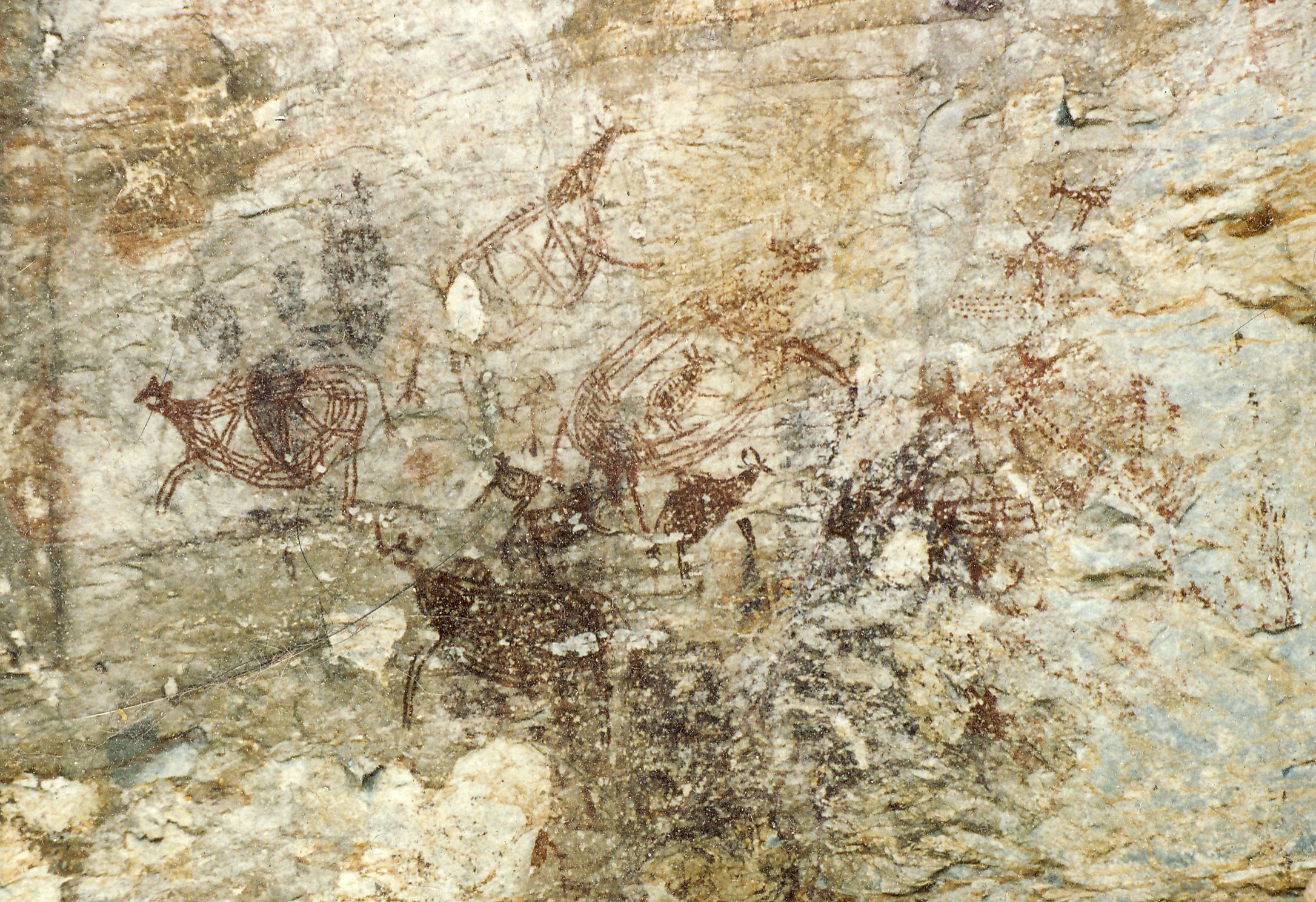 Gua Tambun (Malaysia), rock paintings from the Neolithic